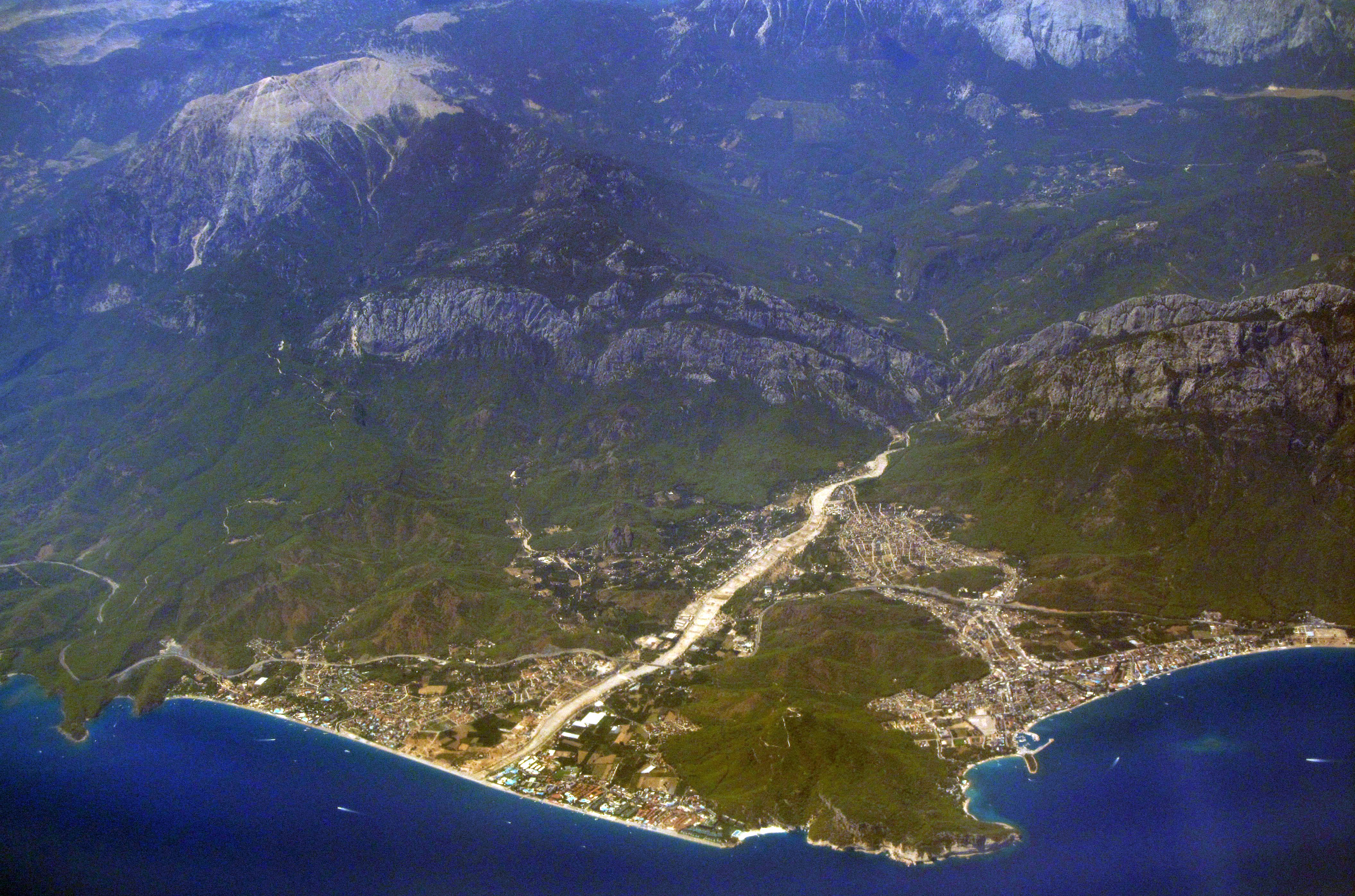 Kemer, Kiriş and Çamyuva at the foot of Lycian Olympus